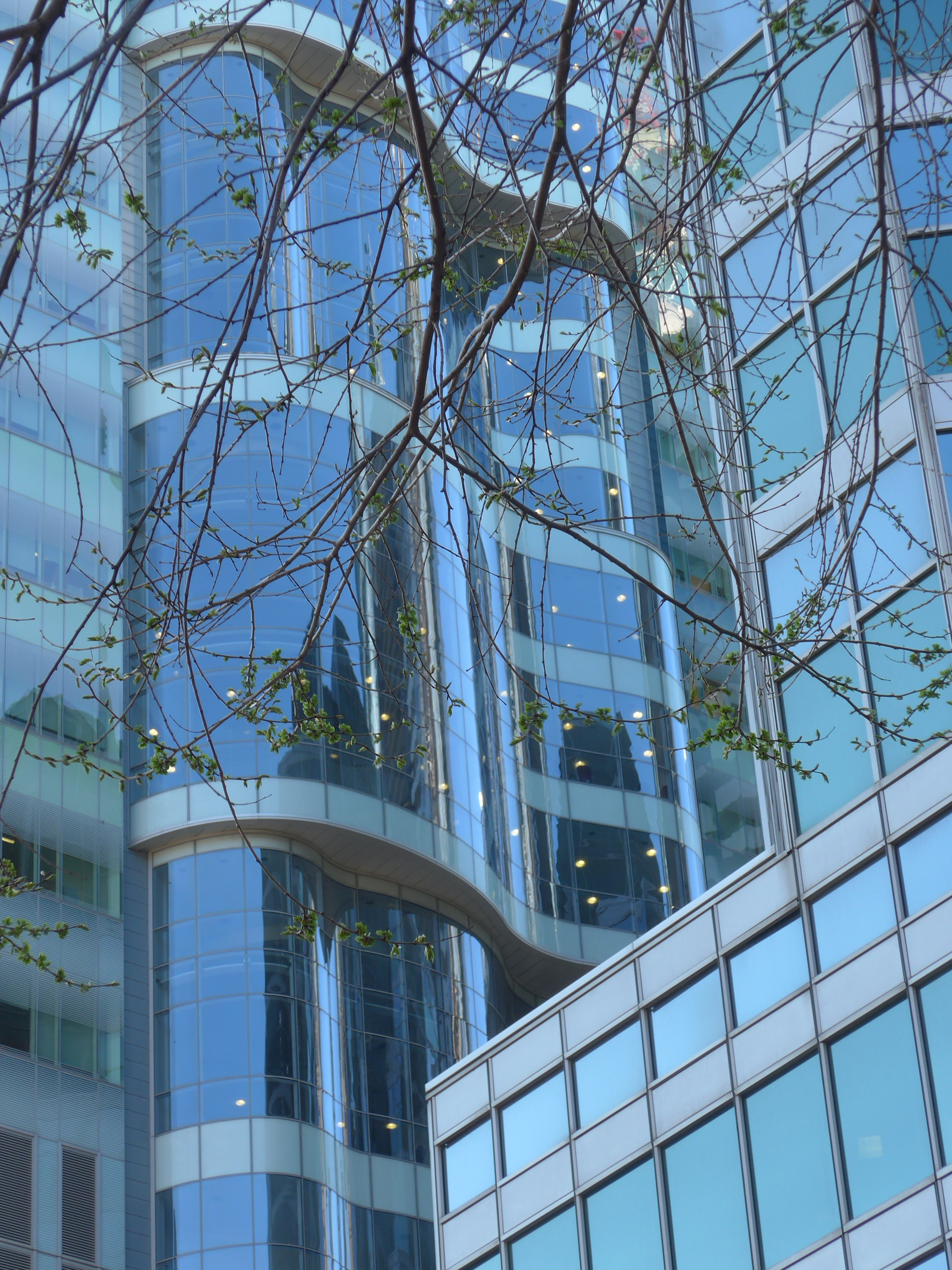 Twenty one storeys tower of research space designed by Diamond Schmitt Architects Inc. and constructed by EllisDon in 2013.